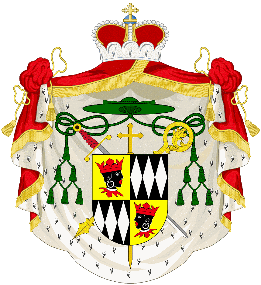 Coat of arms of of Johann Franz Eckher von Kapfing und Liechteneck, Prince-Bishop of Freising (1696 - 1727).